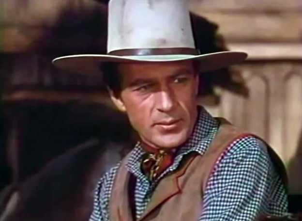 Gary Cooper in the film trailer for North West Mountain Police, 1940